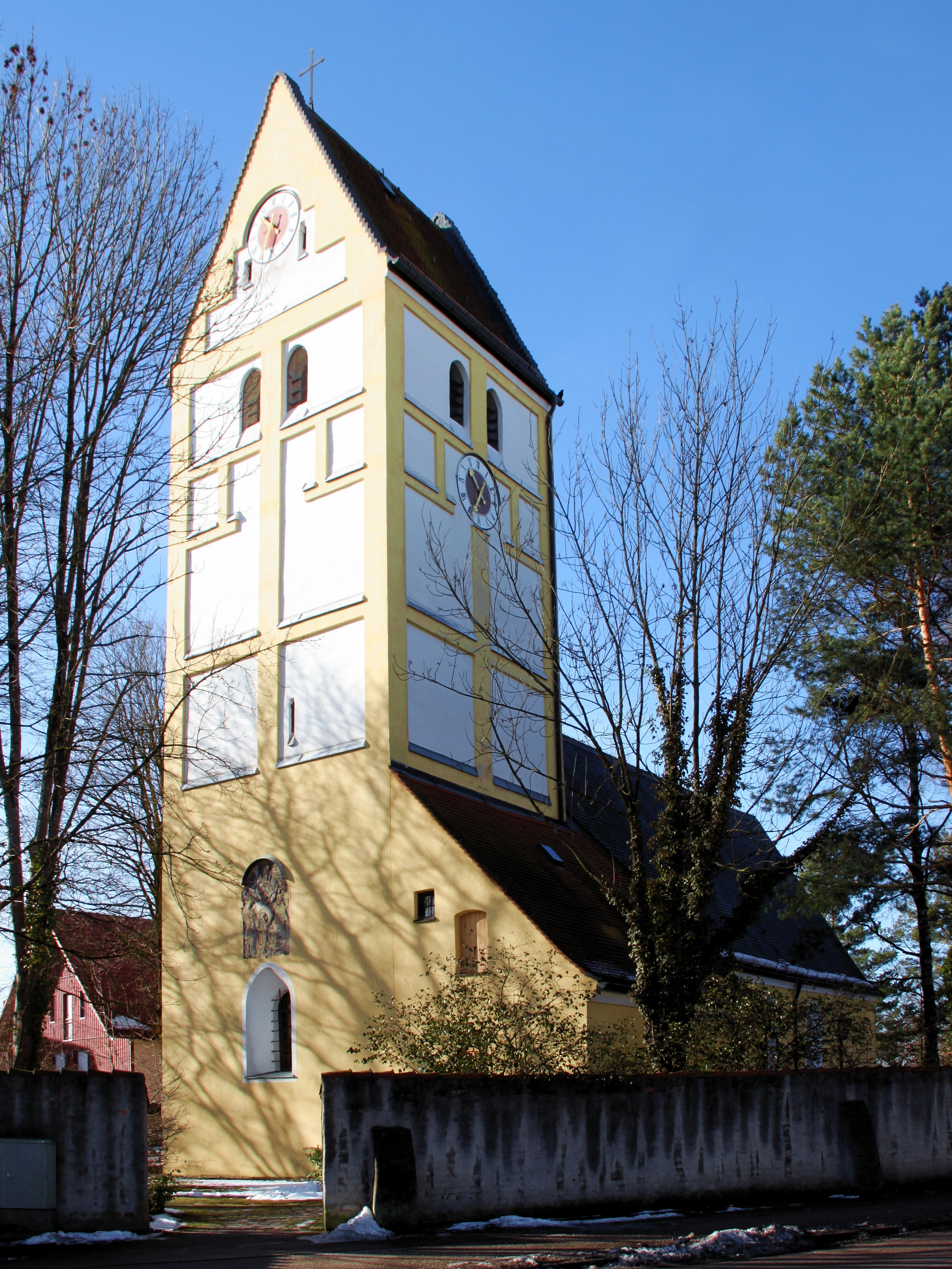 Unterhaching: Saint Korbinian parish church (view from the northeast)